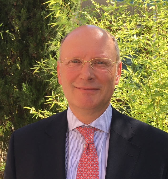 Portrait-Foto of Alexander Kolb (2017); photographer Christoph Wagener